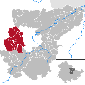 VG Grammetal in Thuringia - District Weimarer Land